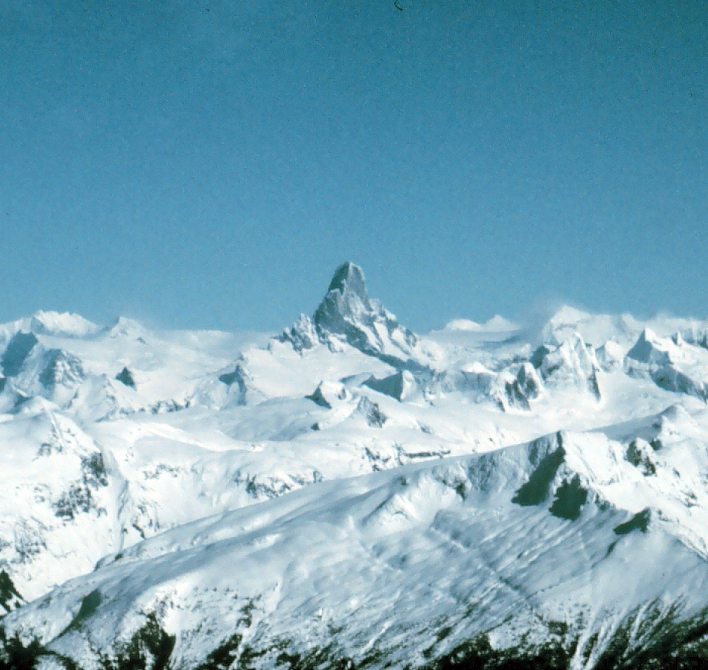 Devils Thumb mountain located in Southeastern Alaska, USA